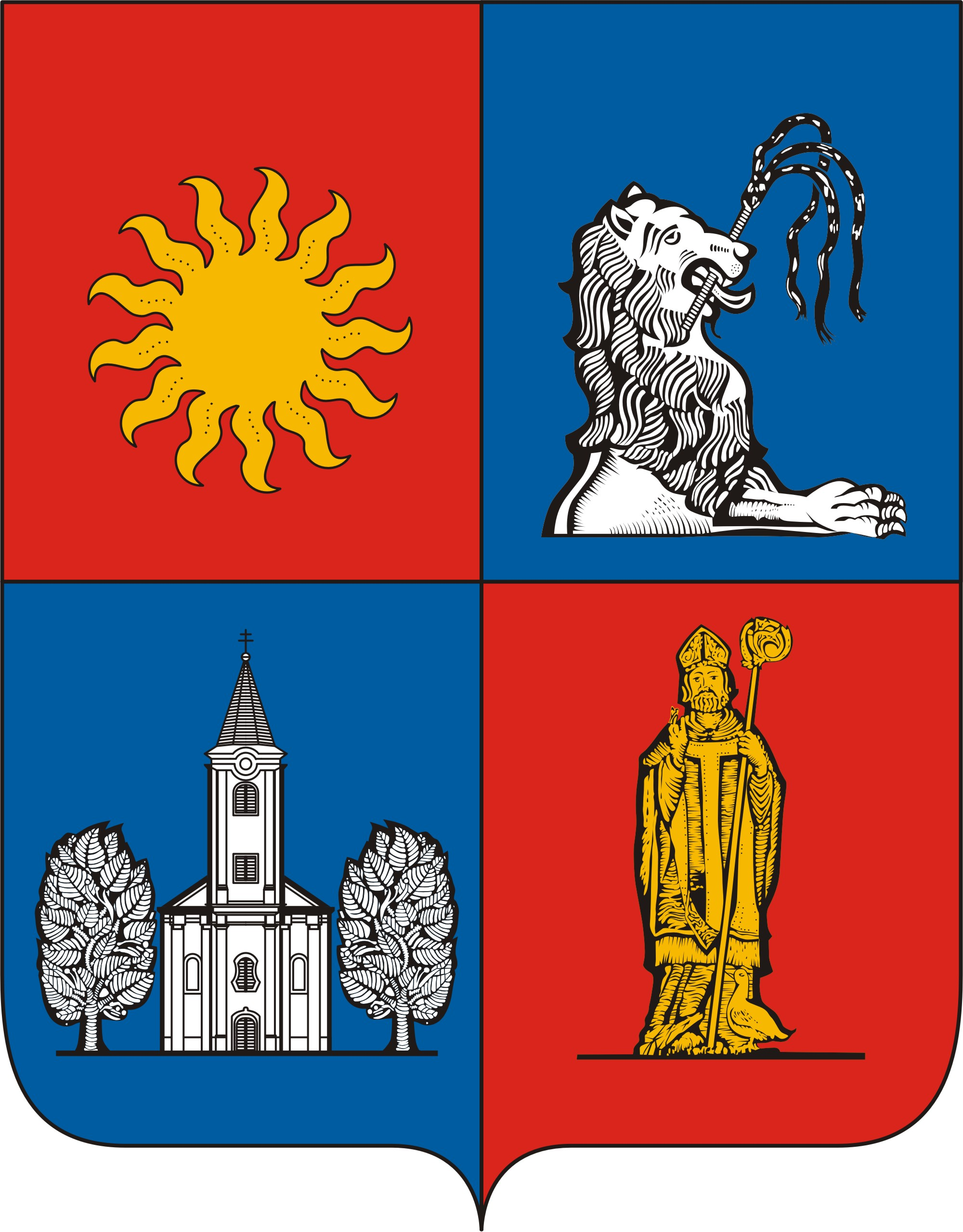 Coat of arms of Vámoscsalád, Hungary